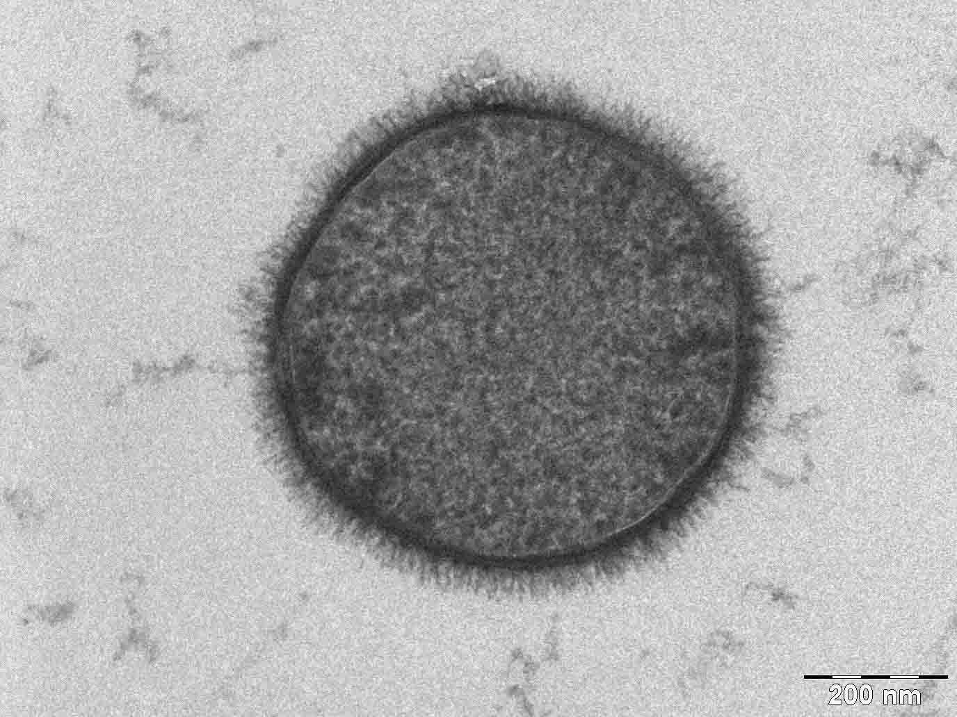 The Bacterium Bacillus subtilis taken with a Tecnai T-12 TEM. Taken by Allon Weiner, The Weizmann Institute of Science, Rehovot, Israel. 2006.